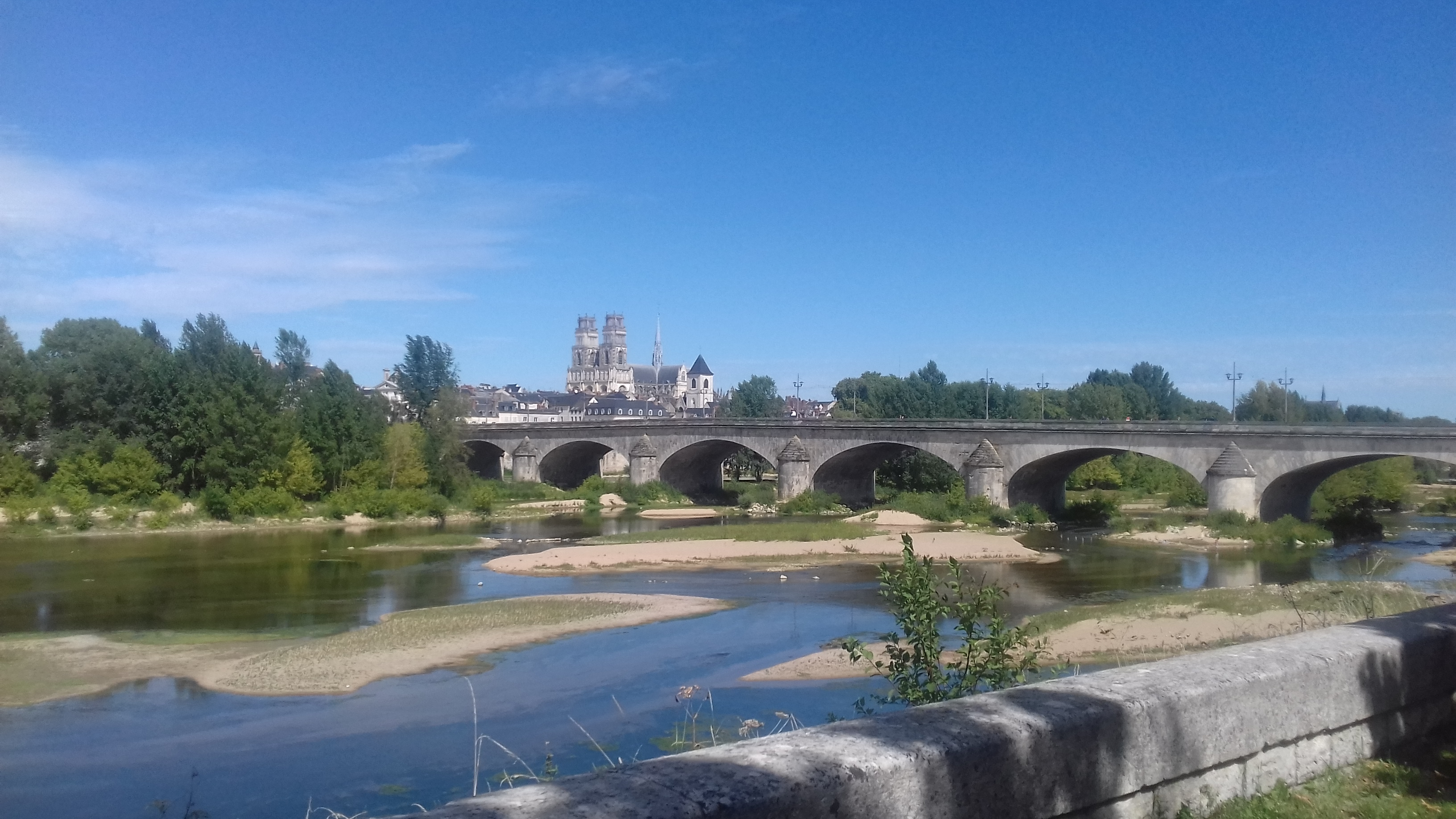 Orleans